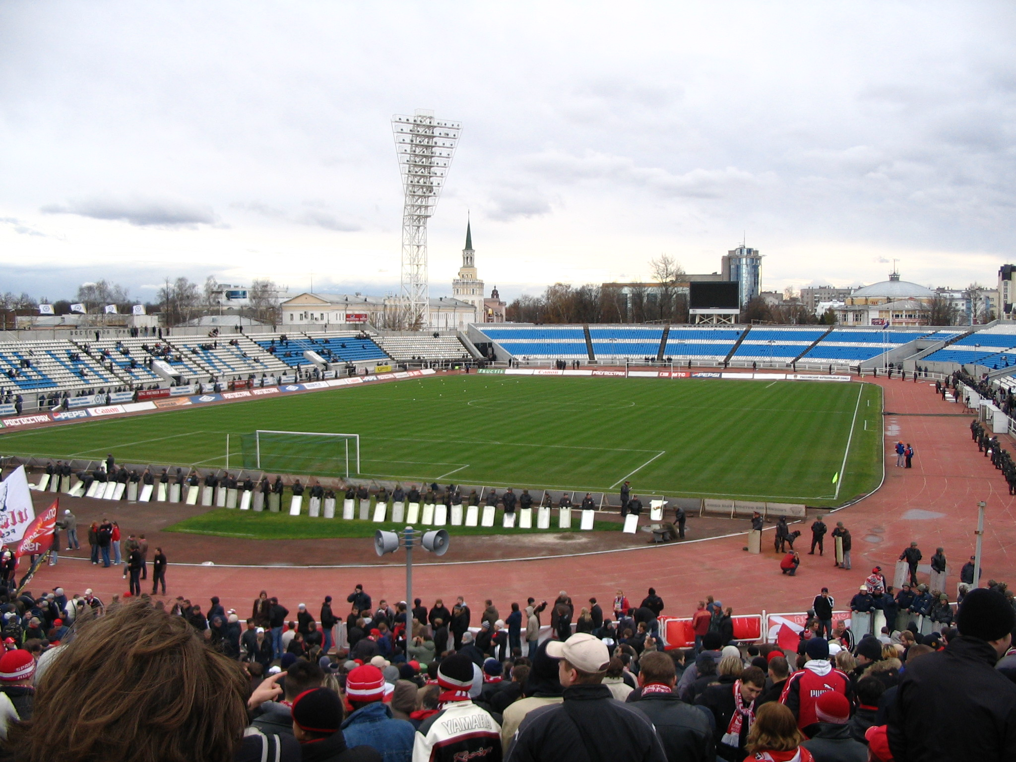 Yaroslavl city stadium Shinnik, 2006. Before the match between Spartak and Shinnik FC.